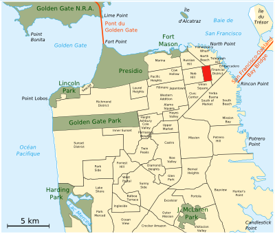 Map of Chinatown, San Francisco, California, USA